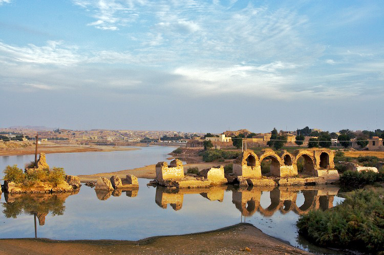 Roman-built Band-e Kaisar ("Caesar's dam") in Shushtar, Iran, said to have been built by Roman prisoners during the reign of Shapur I (ca. 260−270 AD). The dam bridge, the most eastern Roman engineering structure, was the first of its kind in Iran.